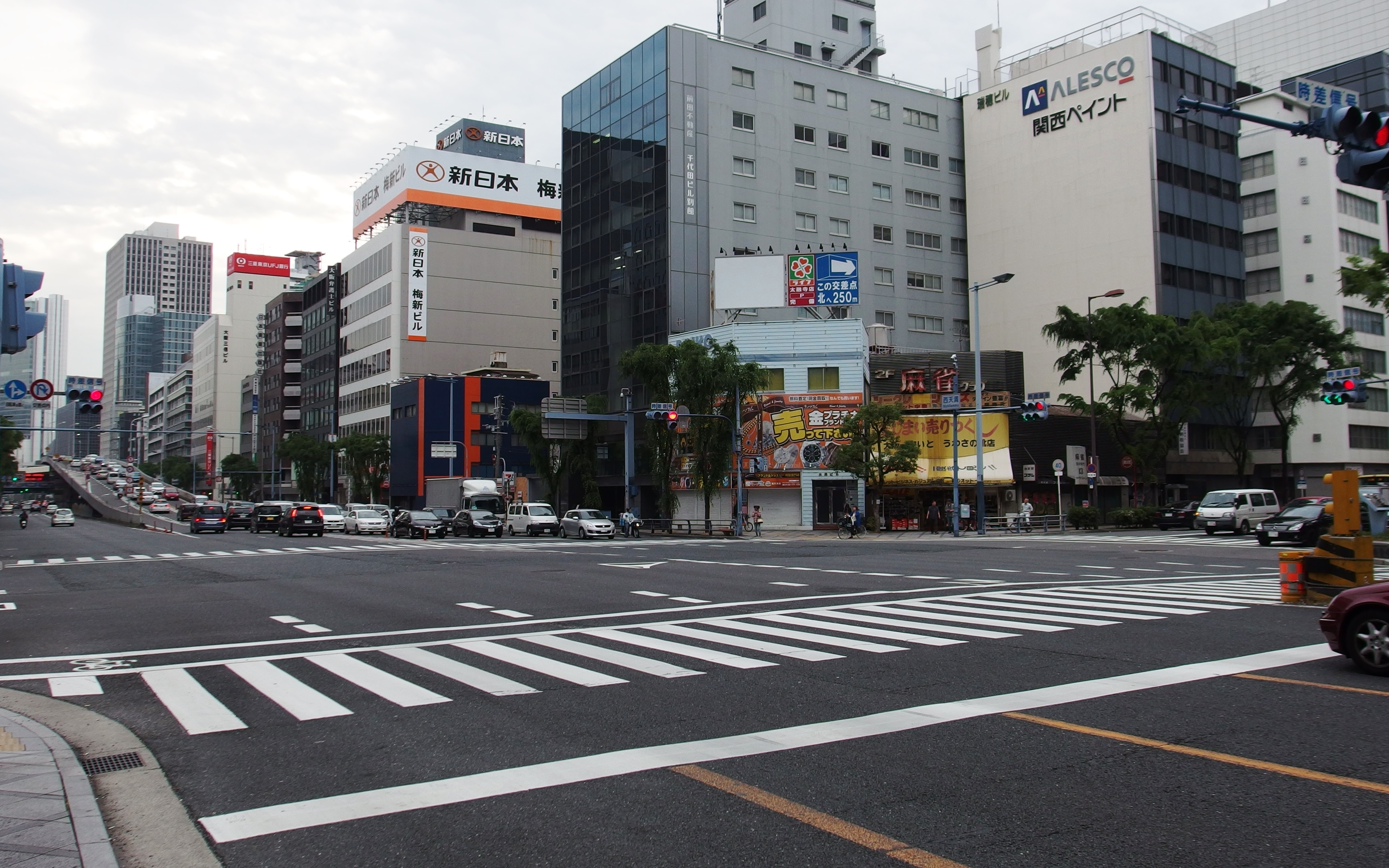 Nishi-Temma Intersection in Osaka, Osaka Prefecture, Japan